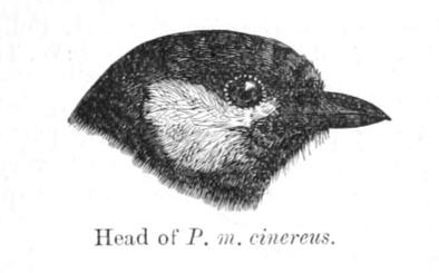 Parus cinereus head